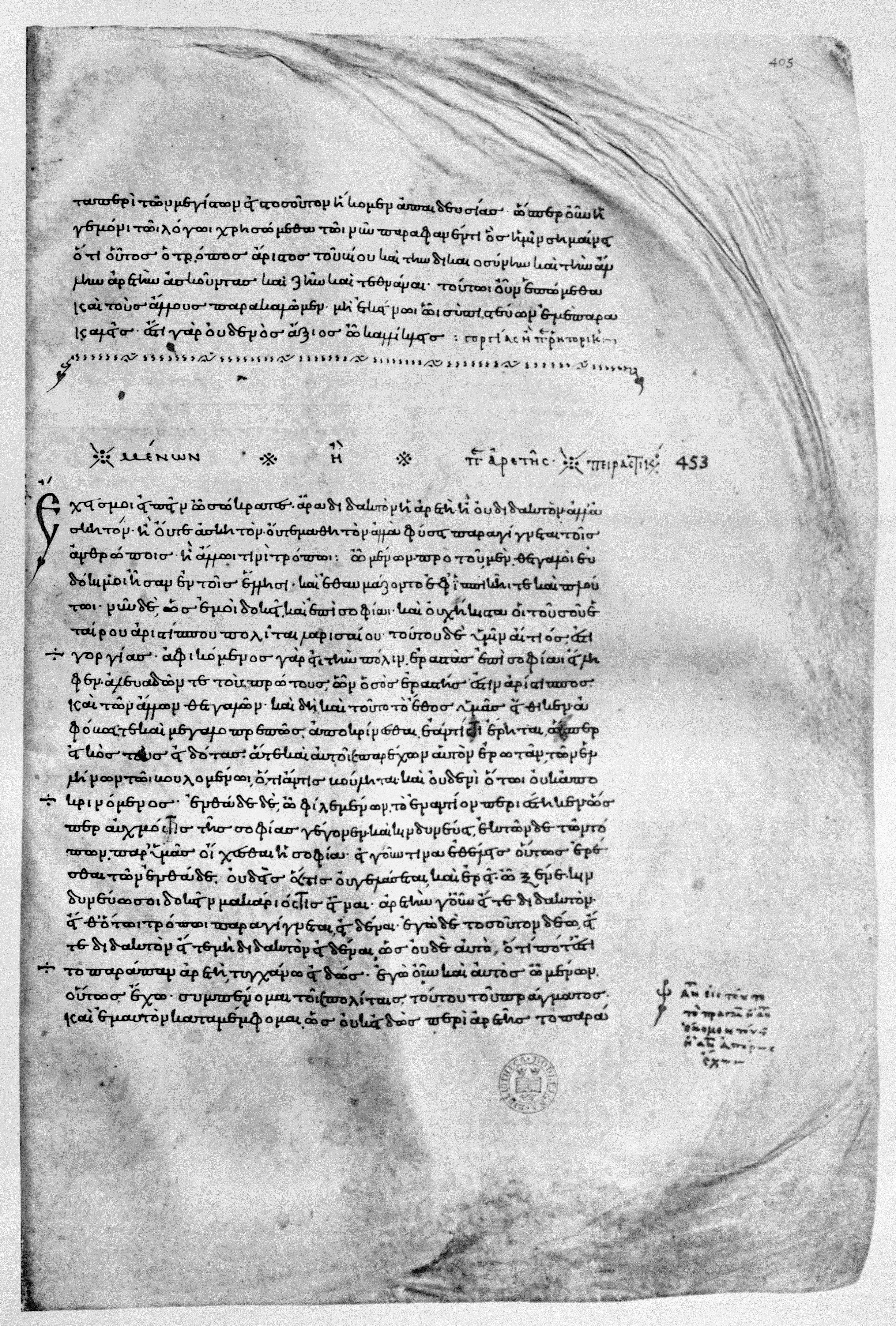 Page of the Codex Oxoniensis Clarkianus 39 (Clarke Plato). Dialogue Menon.